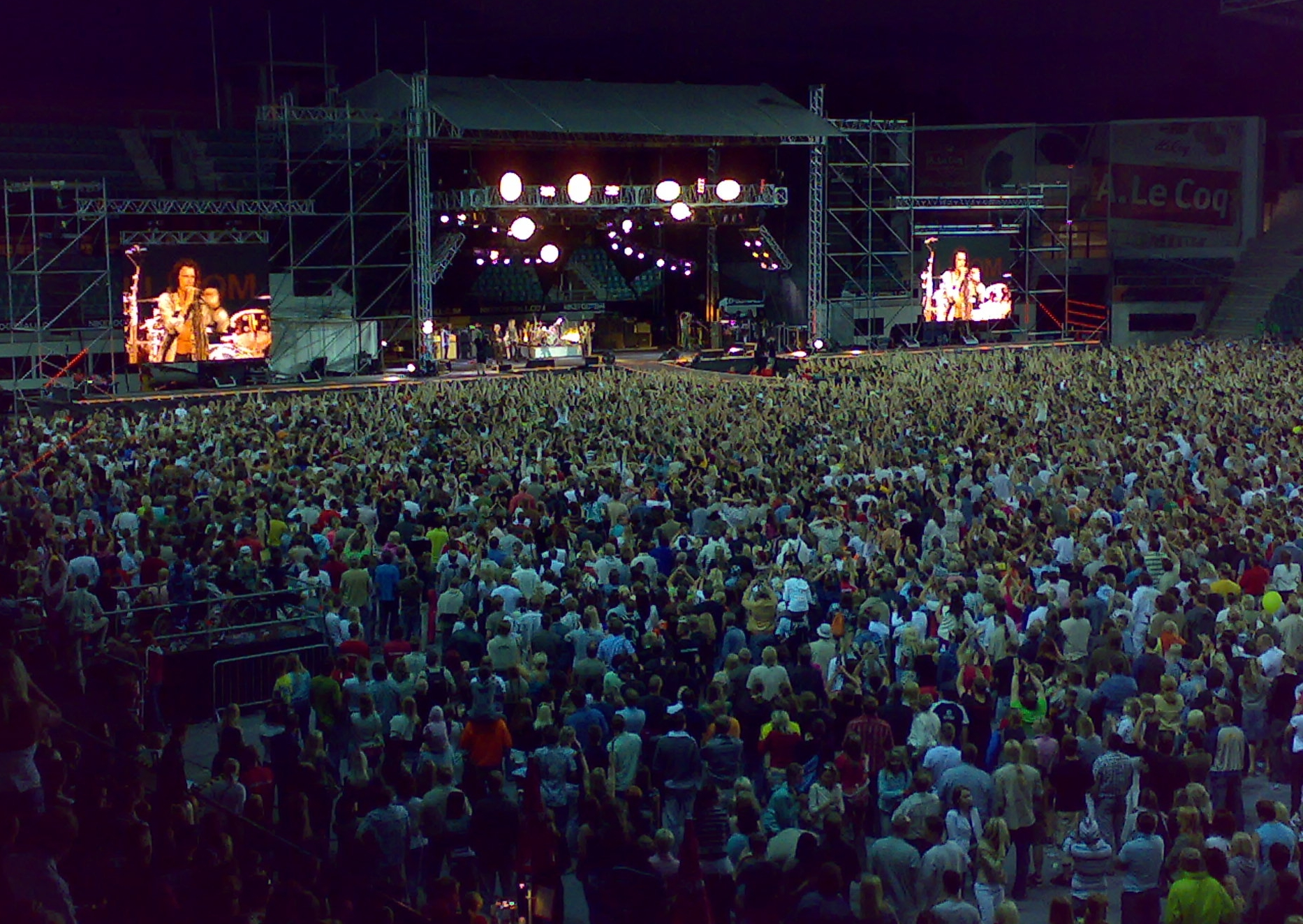 AEROSMITH - WORLD TOUR 2007: A.Le Coq ARENA, Tallinn, Estonia